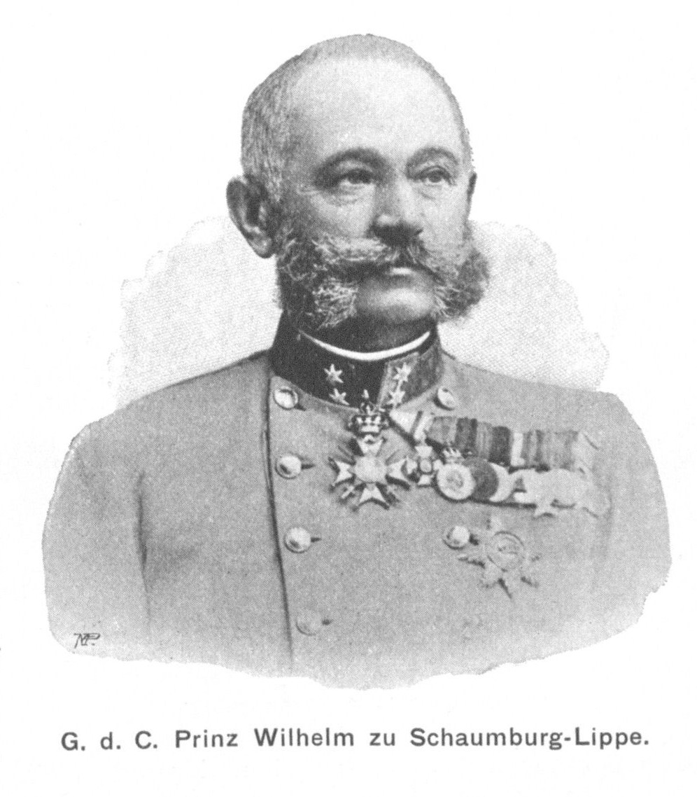 Portrait of Prince William of Schaumburg-Lippe (Wilhelm zu Schaumburg-Lippe 1834-1906), Austrian general.